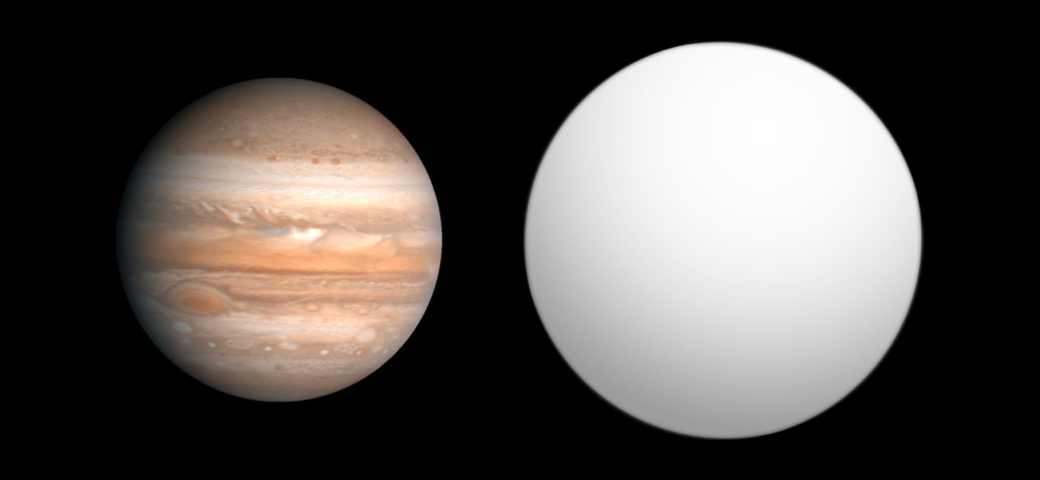 Comparison of best-fit size of the exoplanet WASP-6 b with the Solar System planet Jupiter, as reported in the Open Exoplanet Catalogue[1] as of 2010-09-30. ↑ Open Exoplanet Catalogue (2010-09-30). Retrieved on 2010-09-30.